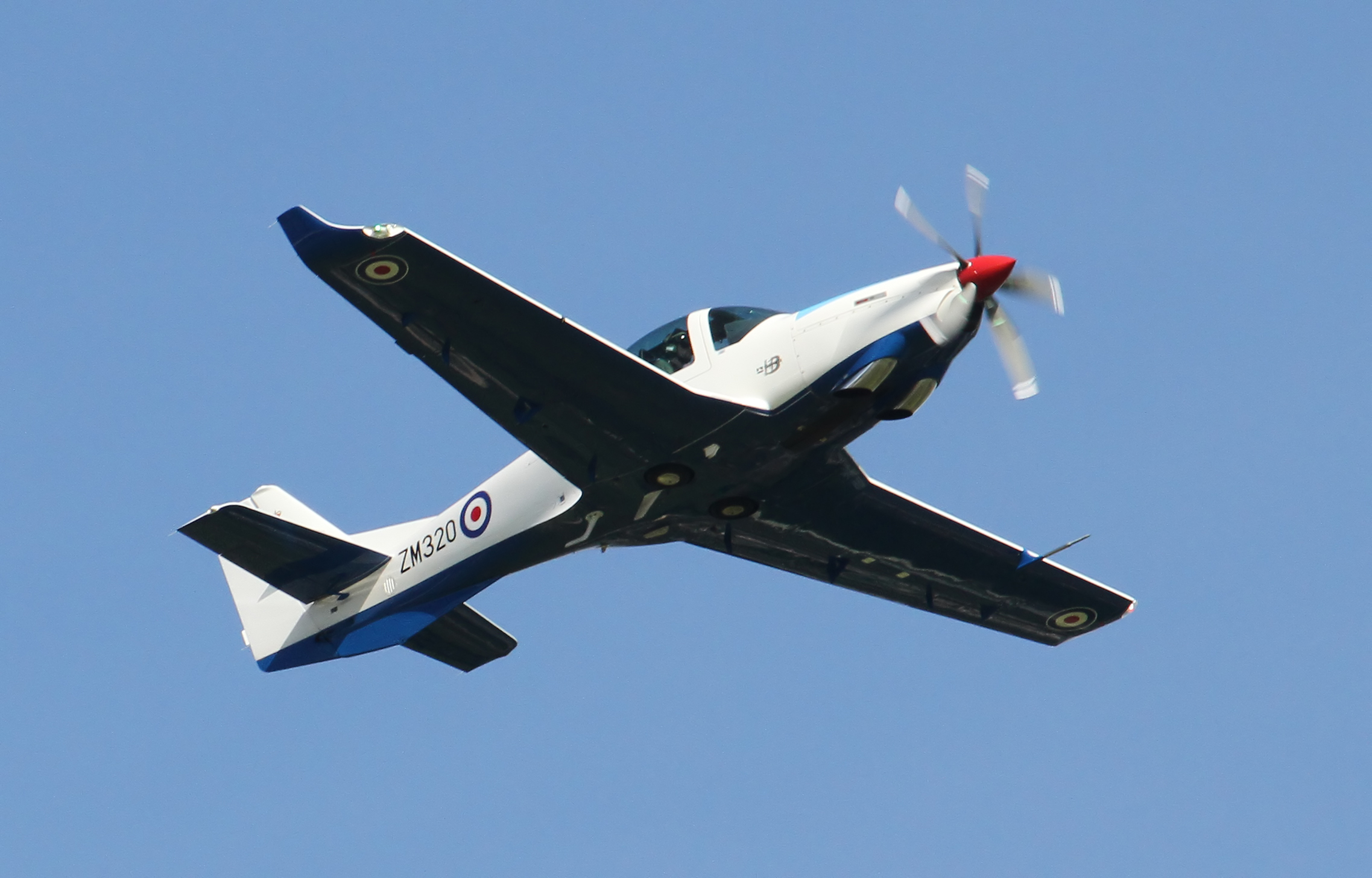 ZM320 Grob G120TP-A Prefect T1